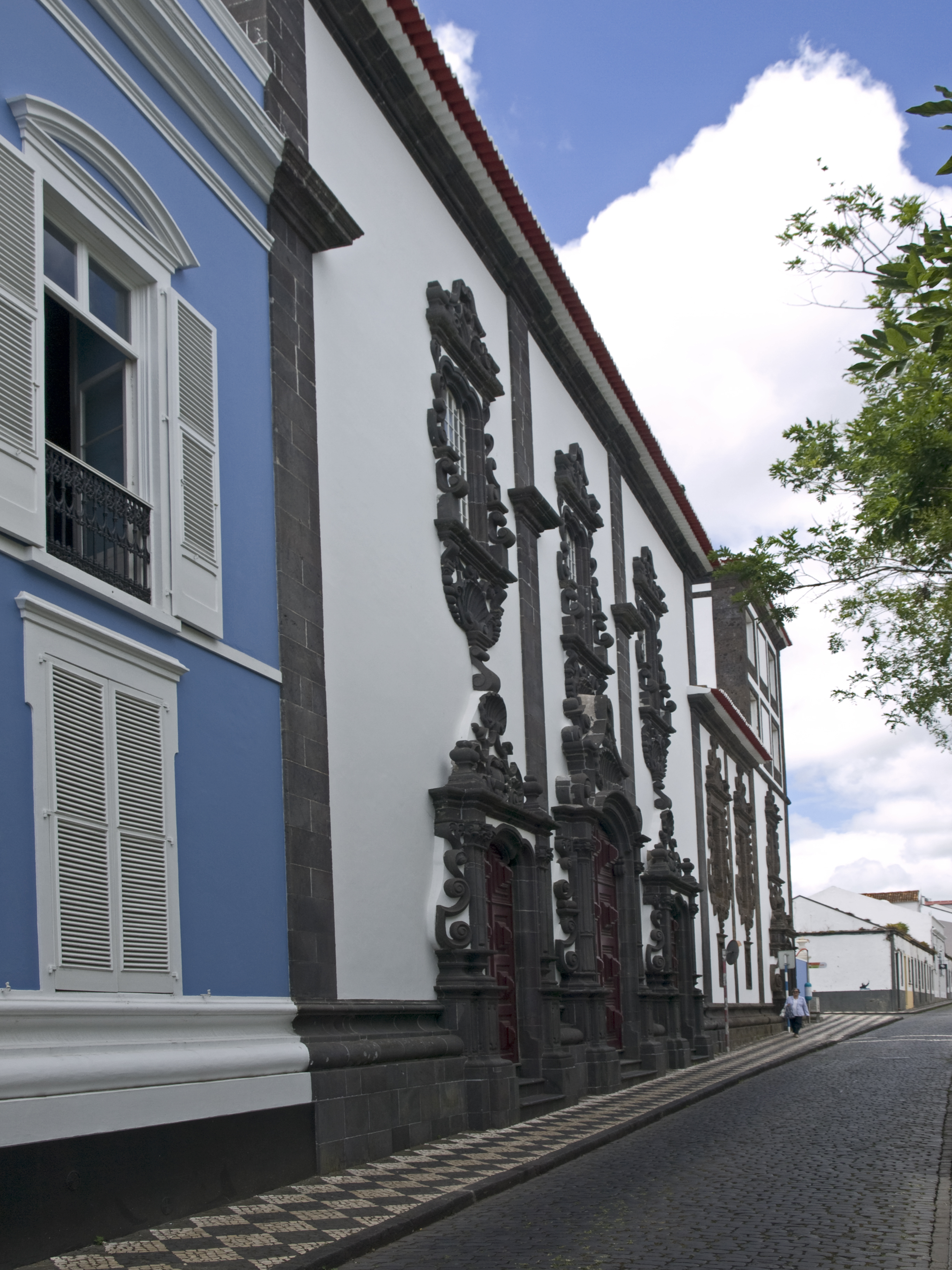 Igreja da Conceição, Ponta Delgada, from Rua da Conceição